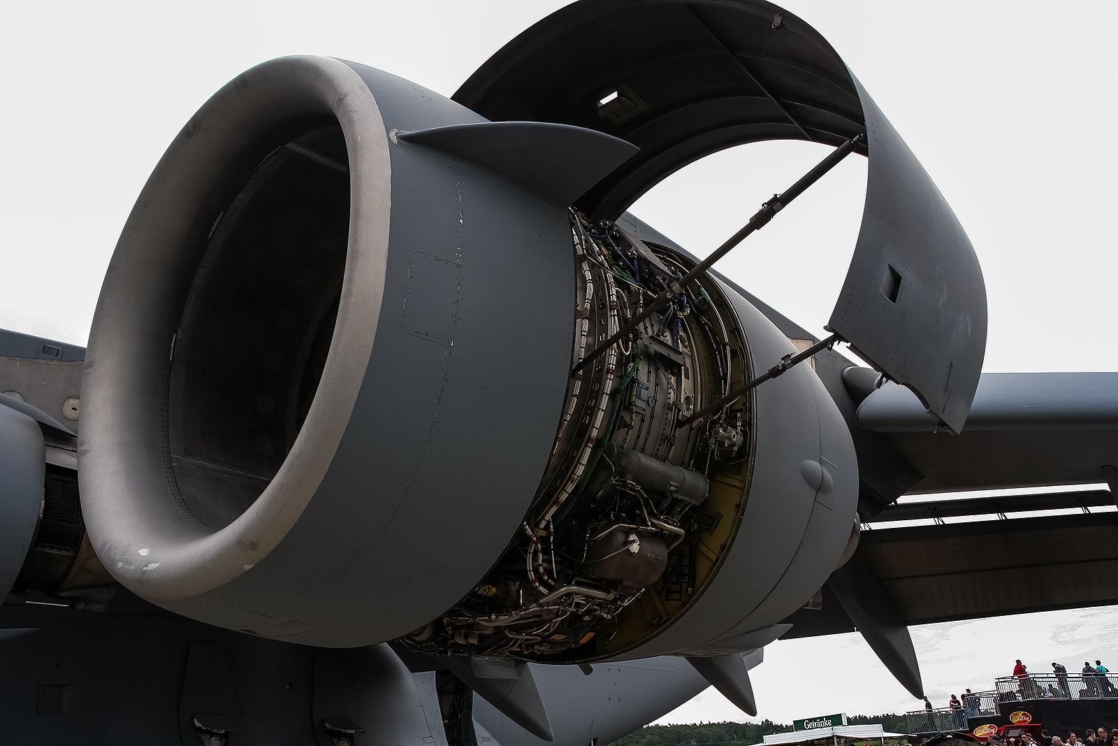 F117-PW-100 Turbo Fan Engine of C-17A Globemaster III / ILA 2014 Berlin / 24.05.2014